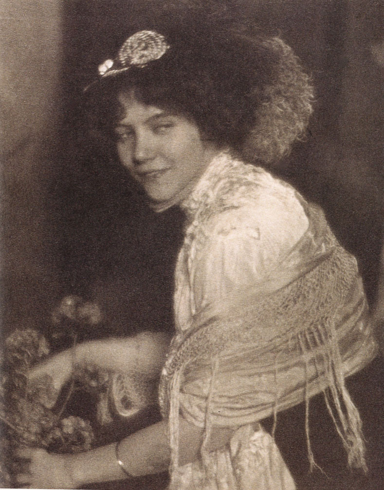 "Miss G.G."